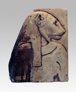 Древний Египет. I тысячелетие до н.э. Изображение богини Сохмет. Гипс. 15,8x13x2,5.